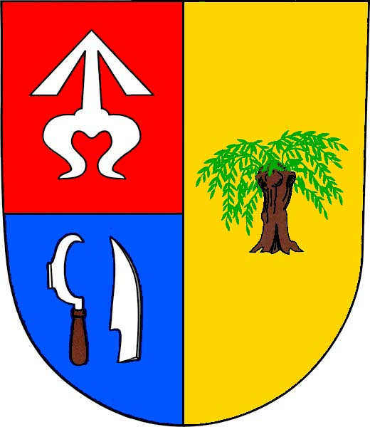 Municipal coat of arms of Hrubá Vrbka village, Hodonín District, Czech Republic.